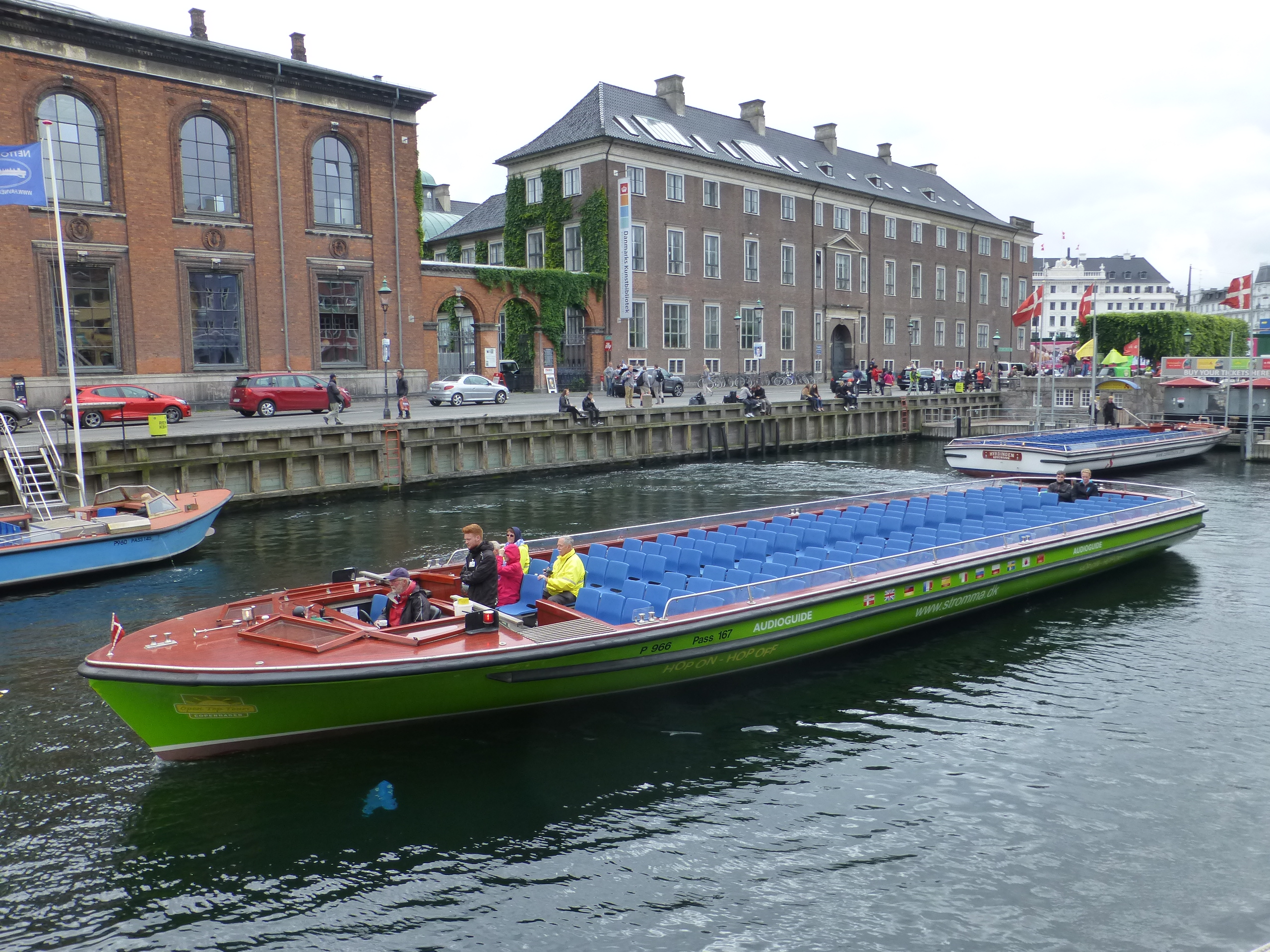 Ship from the harbour boat trips Canal Tours in Nyhavn in Copenhagen.